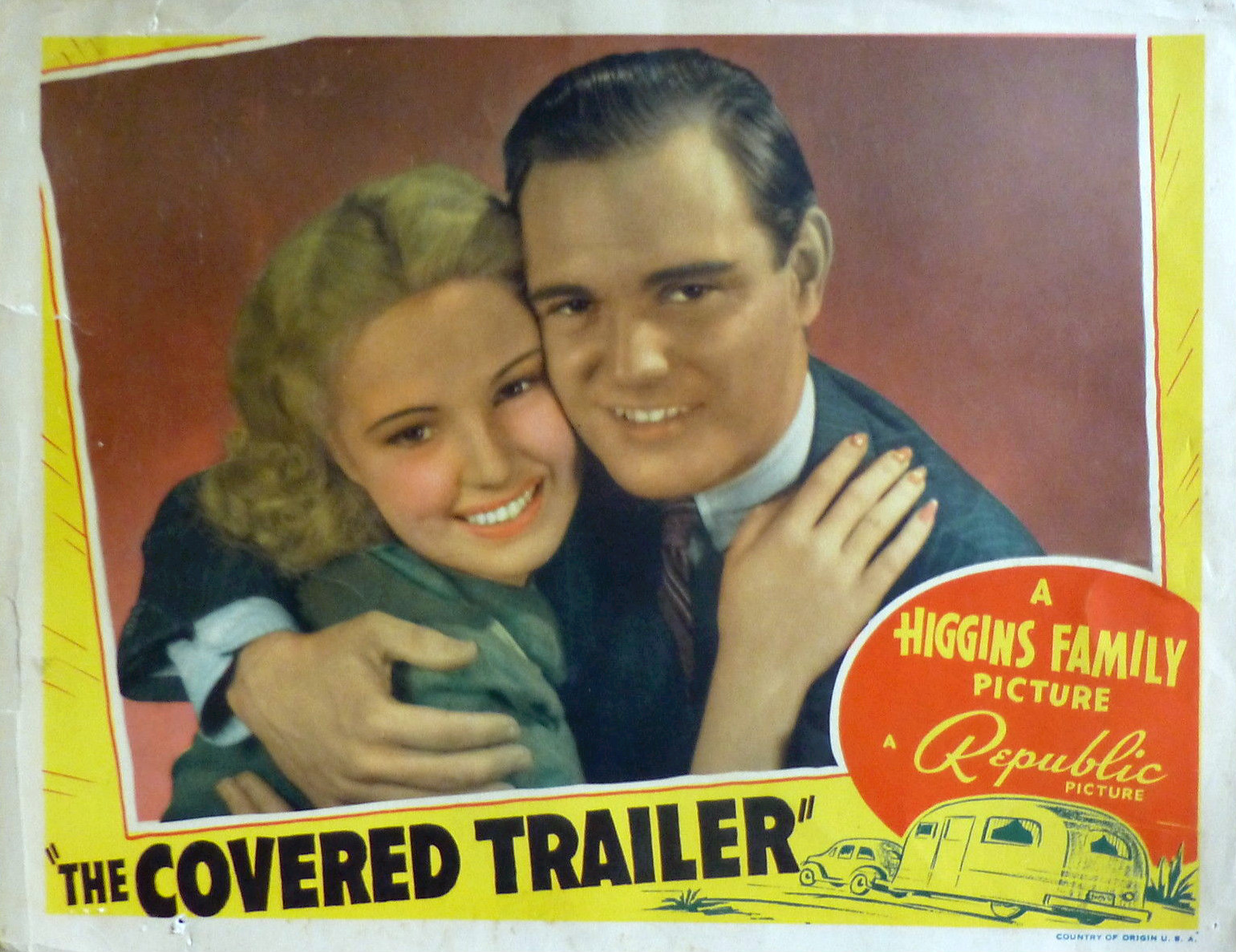 Lobby card for the 1939 film The Covered Trailer.. Pictured are Mary Beth Hughes and Russell Gleason.)